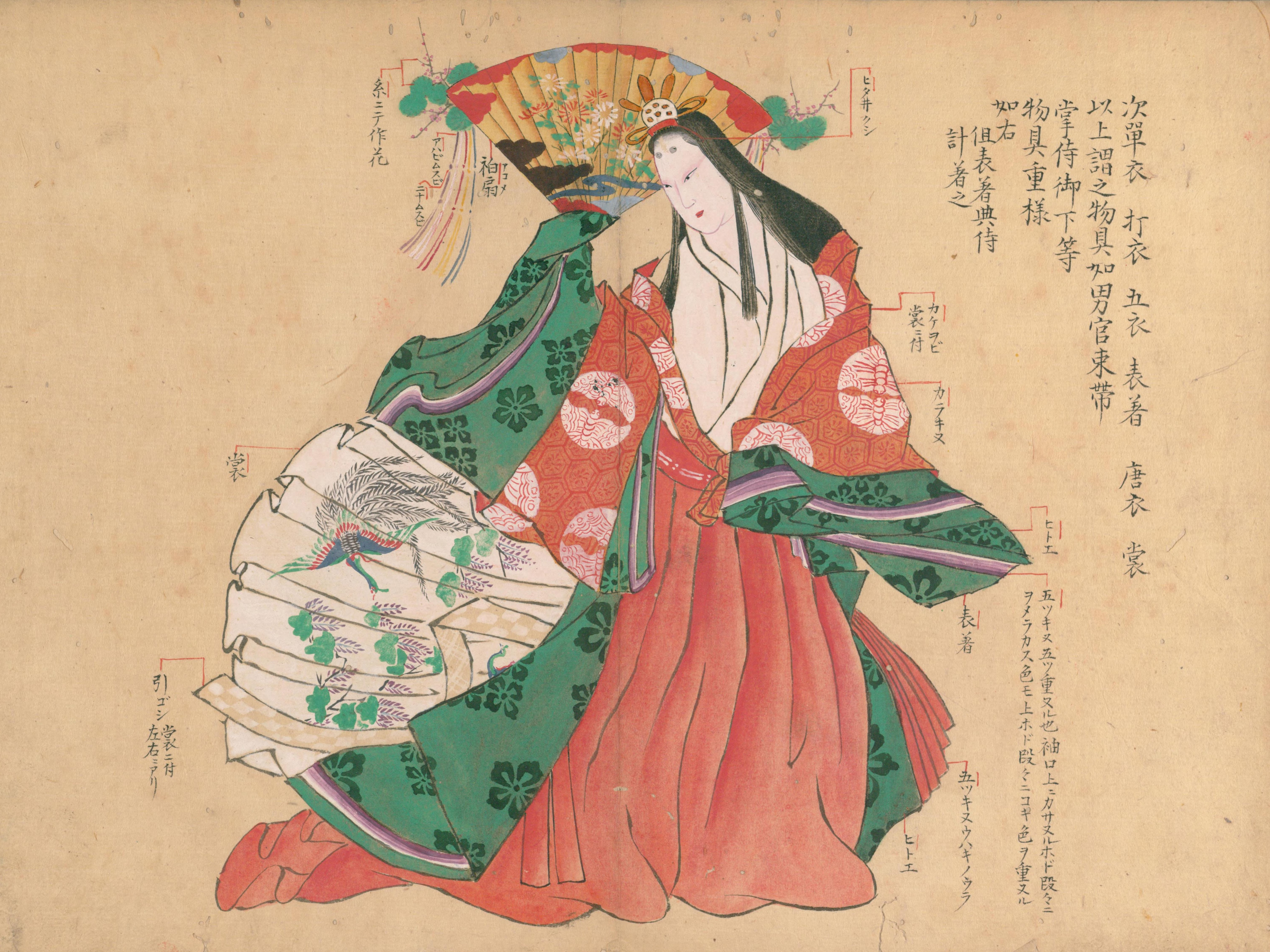 A figure of a female officer's costume from "The Costume Wear"